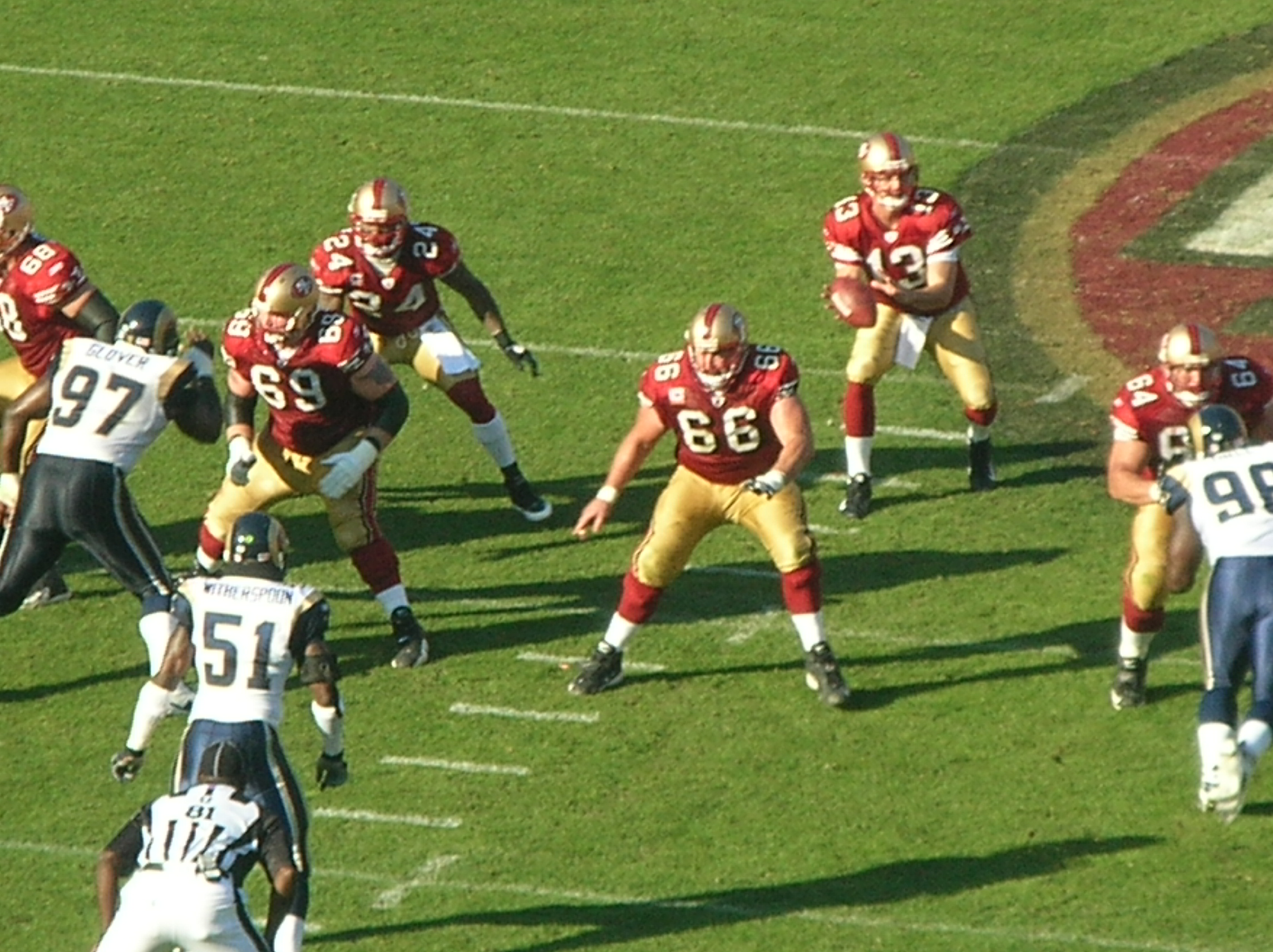 The San Francisco 49ers on offense during a home game against the St. Louis Rams. The 49ers won 35-16.